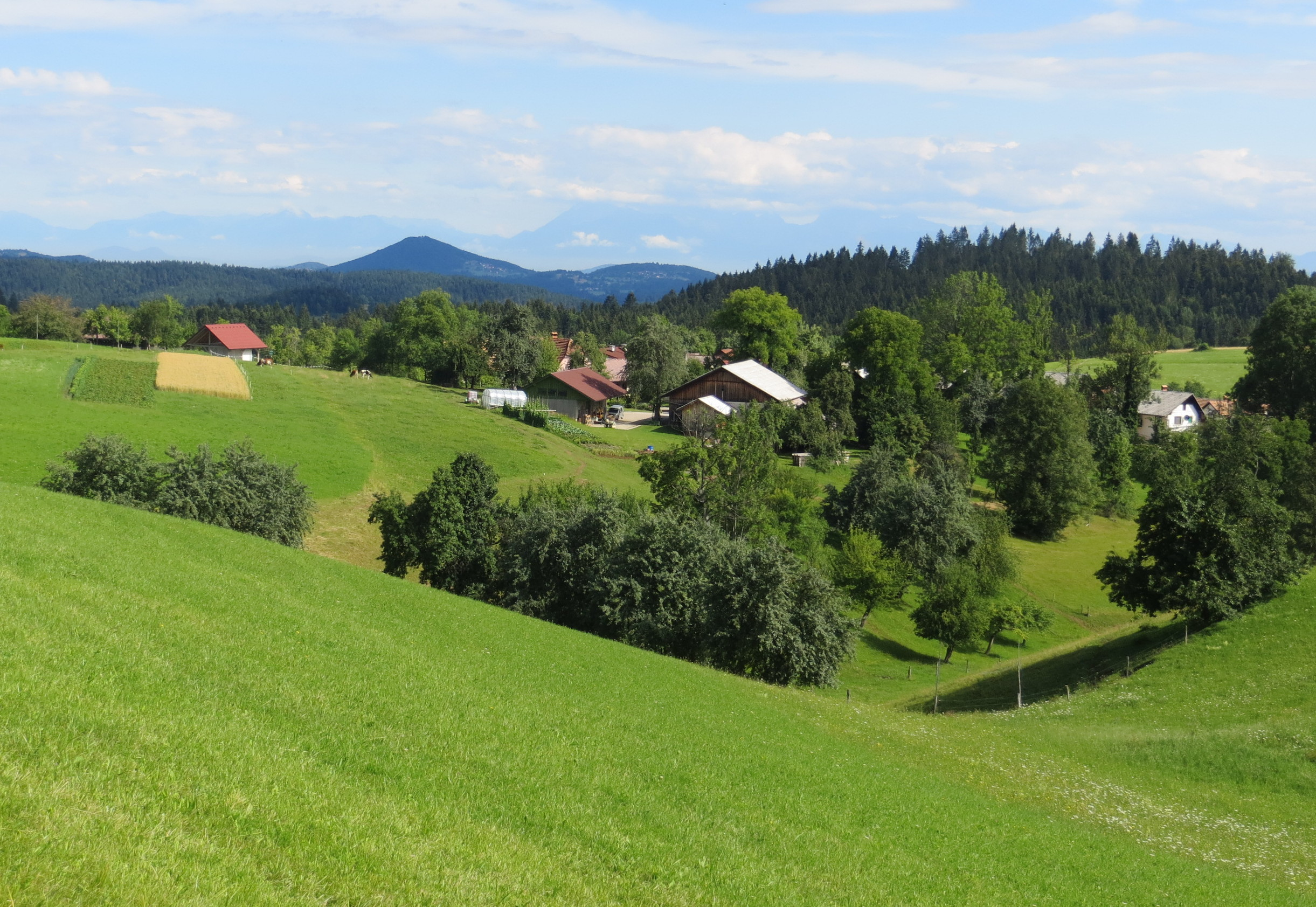 Marolče, Municipality of Ribnica, Slovenia